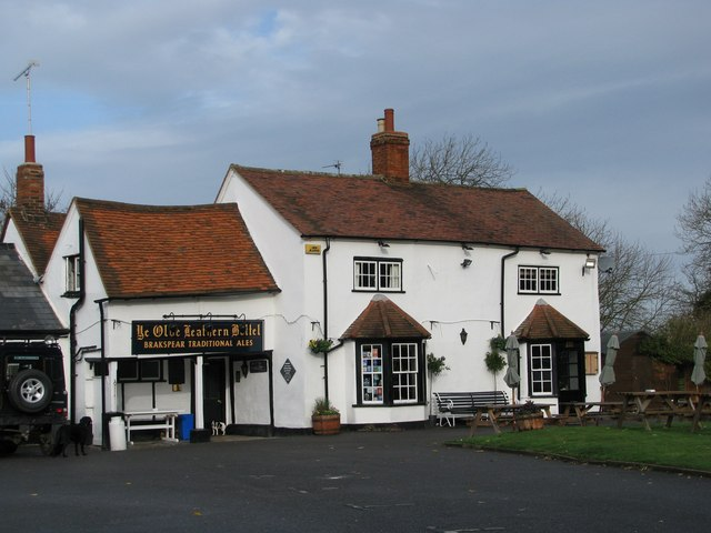 Ye Olde Leathern Bottel pub, High Street, Lewknor, Oxfordshire